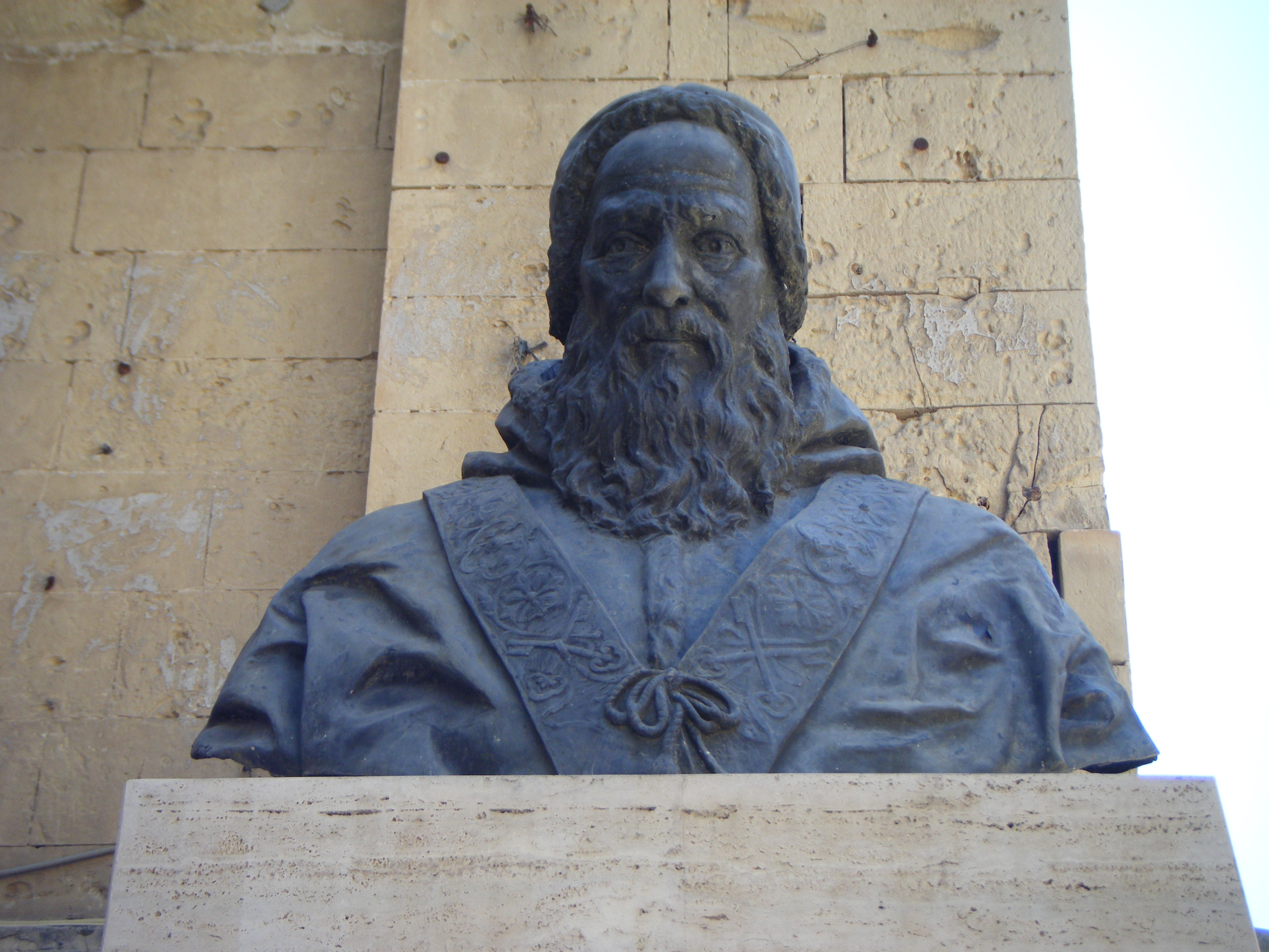 Bust of Saint Pious V, Pope, in Great Seige Square, Valletta, Malta